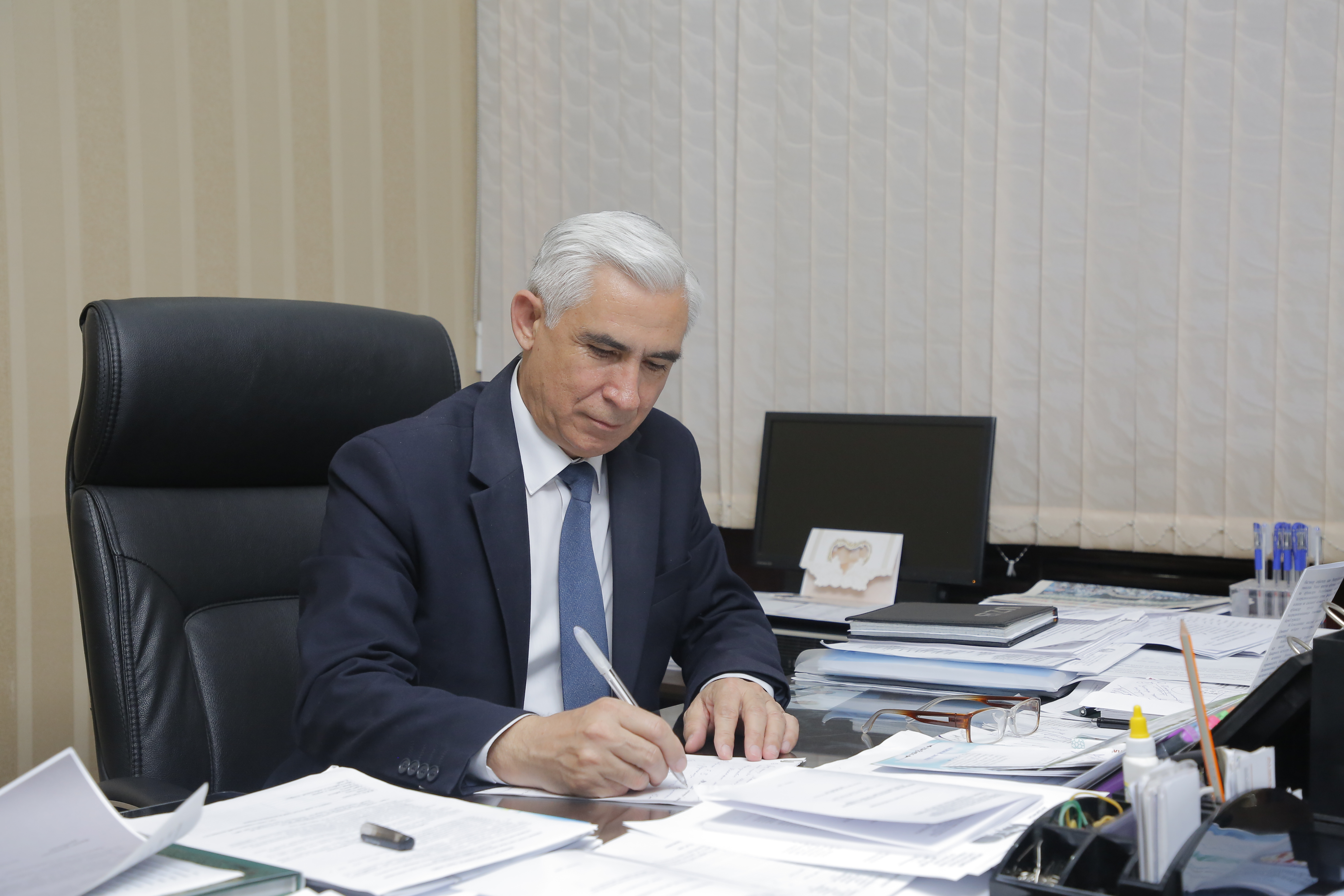 RectorASU